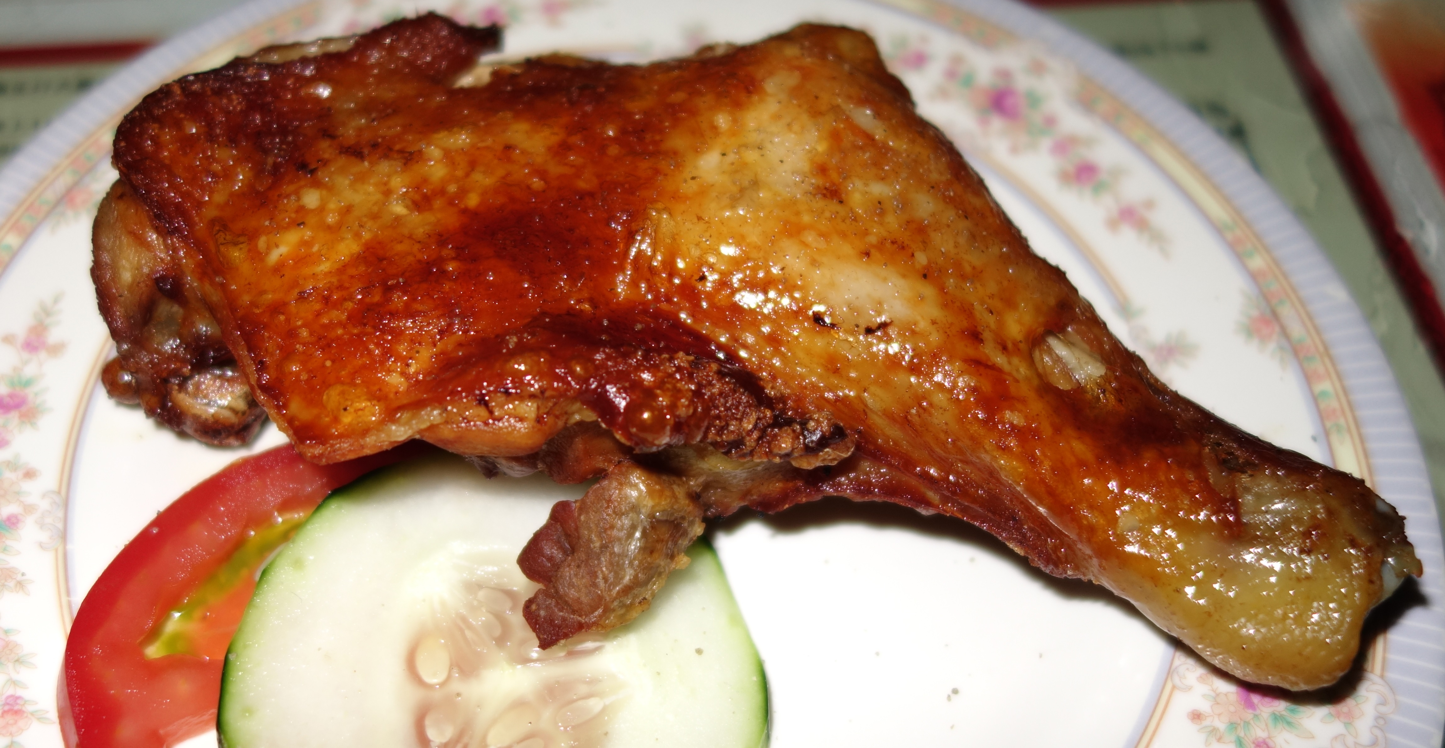 Hong Kong style fried chicken leg from Capital Café in Mong Kok